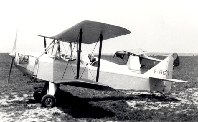 Leopoldoff L.6 Colibri at Chavenay airfield near Paris. Plane n°129, first registered 10-27-1953 at "La Ferté Allais". Registered 09-07-1971 by Jean Sallis, France.